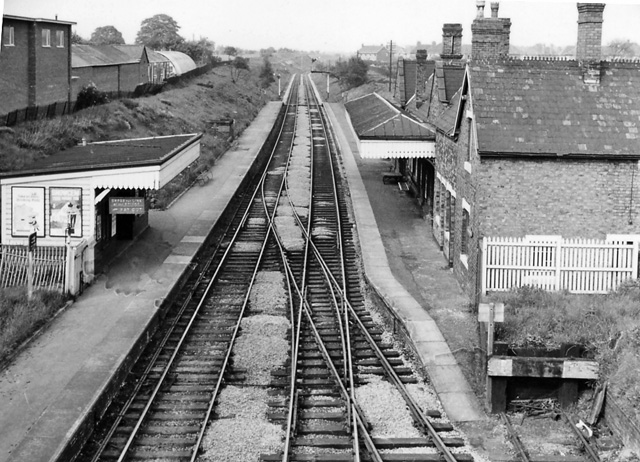 Brownhills Station. View NE, towards Lichfield; ex-London & North Western Walsall - Lichfield (City) line, which was closed entirely on 18/1/65.